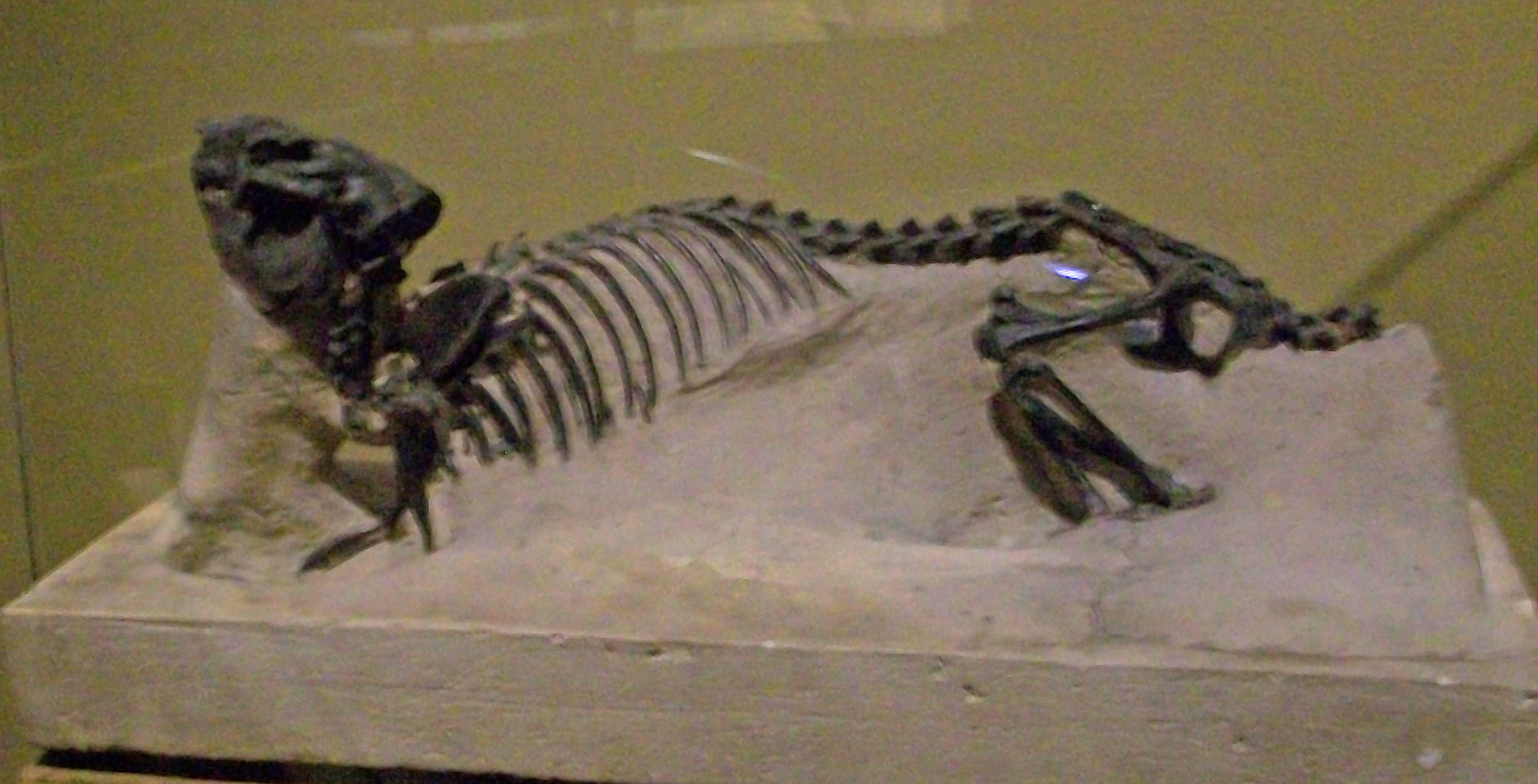 Skeleton of Interatherium excavatus in the Field Museum of Natural History.